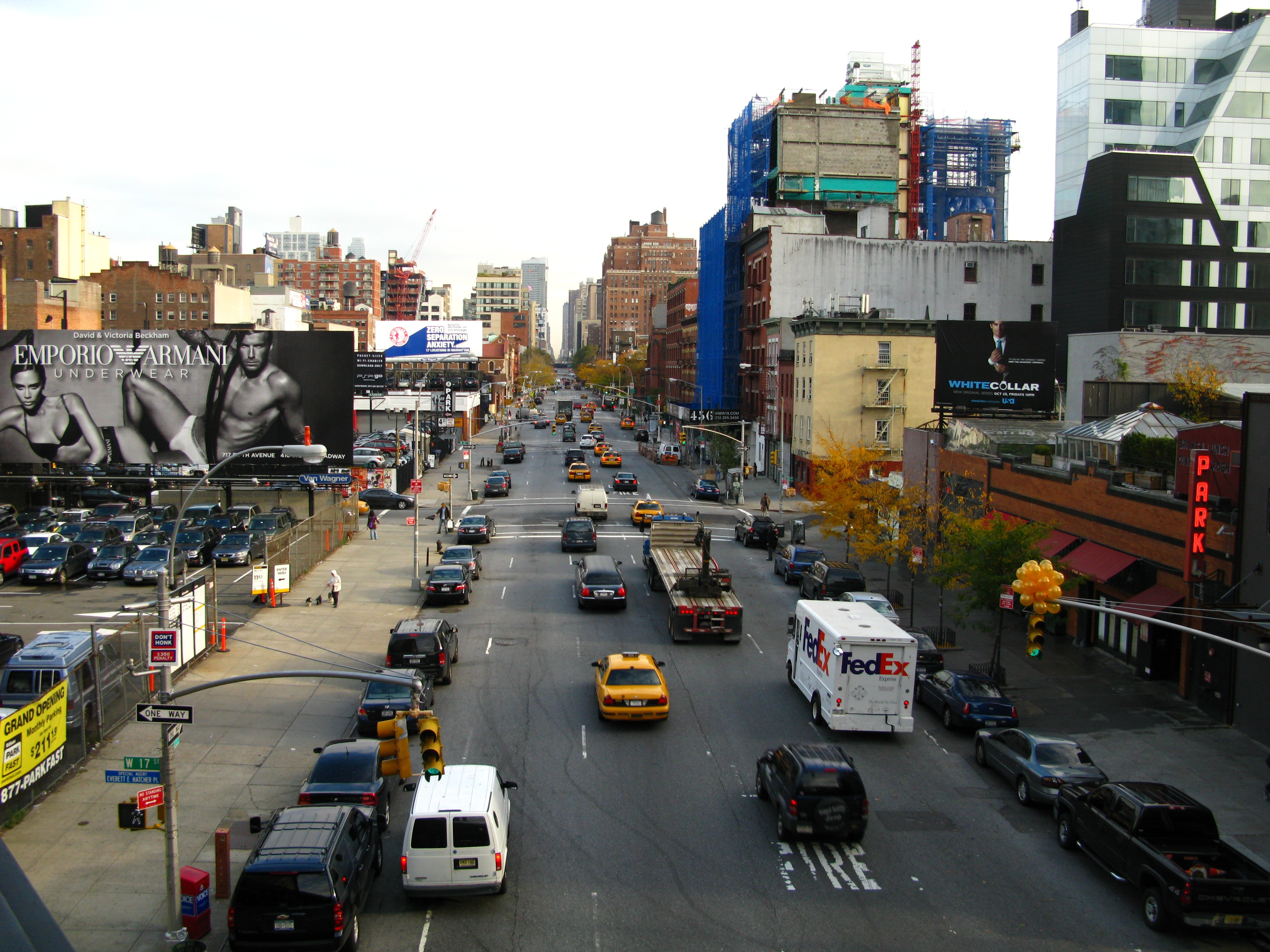 10th Avenue, NYC arterial road.